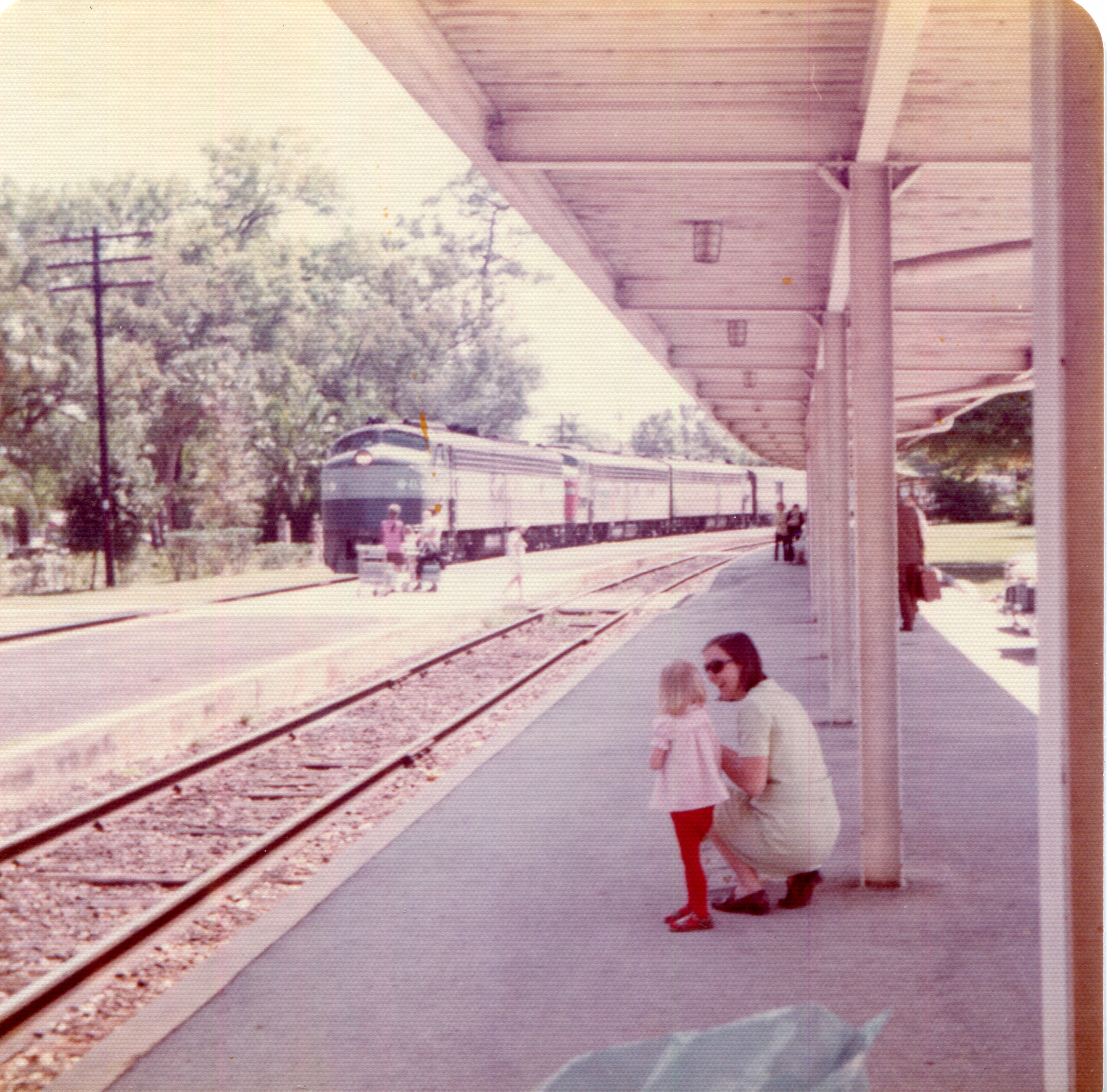 Teresa and Louise watching our Chicago-bound Amtrak train arriving in Winter Park, FL. Note that Amtrak was started in 1971, and much of their early equipment was inherited from the various railroads. This train operated over a route that included Nashville and Indianapolis, and Amtrak permanently discontinued this direct Florida-Chicago route within a couple of years. The condition of the track was so bad that Louise got sick, and she and her dad got off the train in Indianapolis and flew the rest of the way. 3/18/73